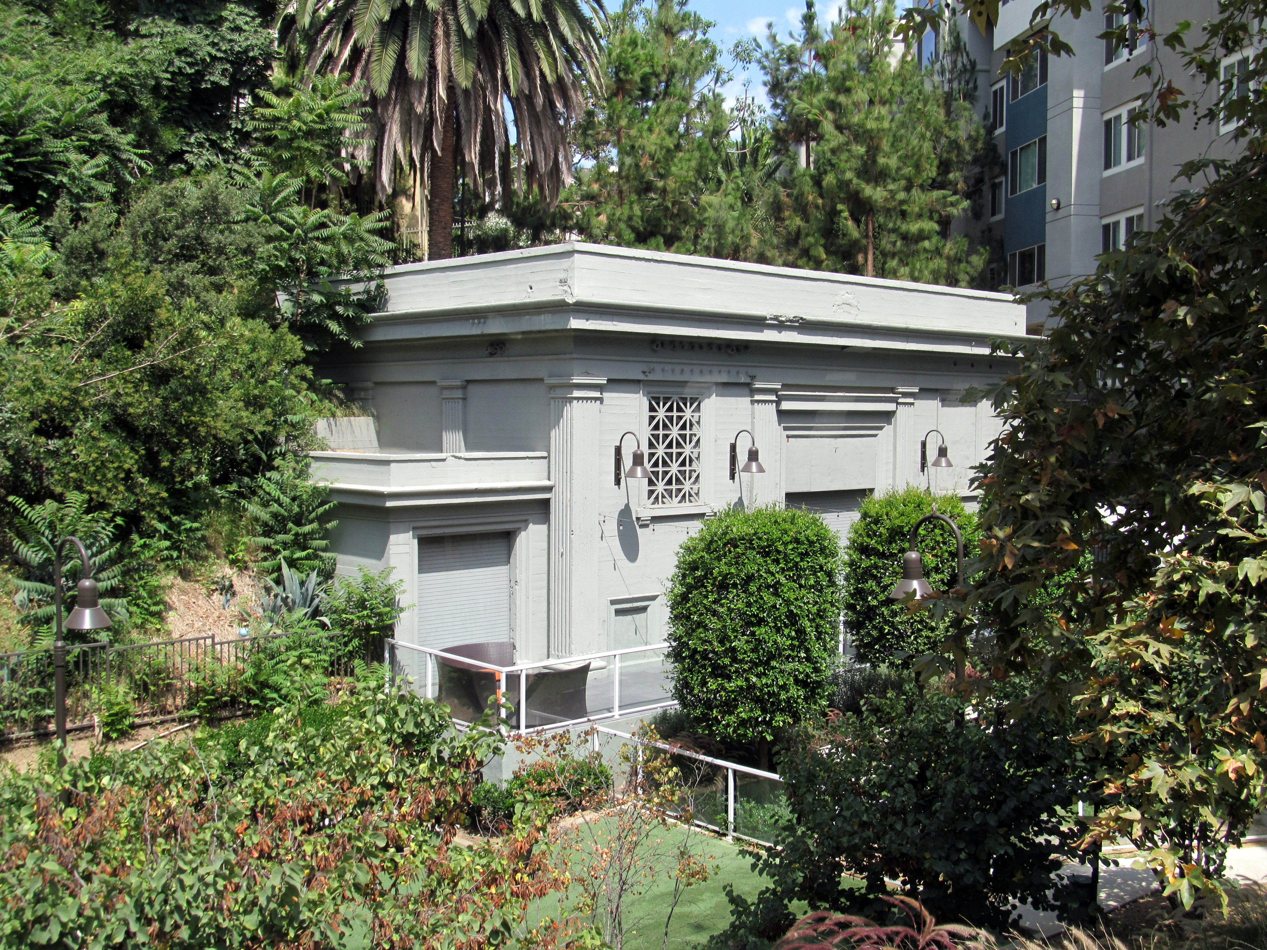 Toluca Substation in July 2017